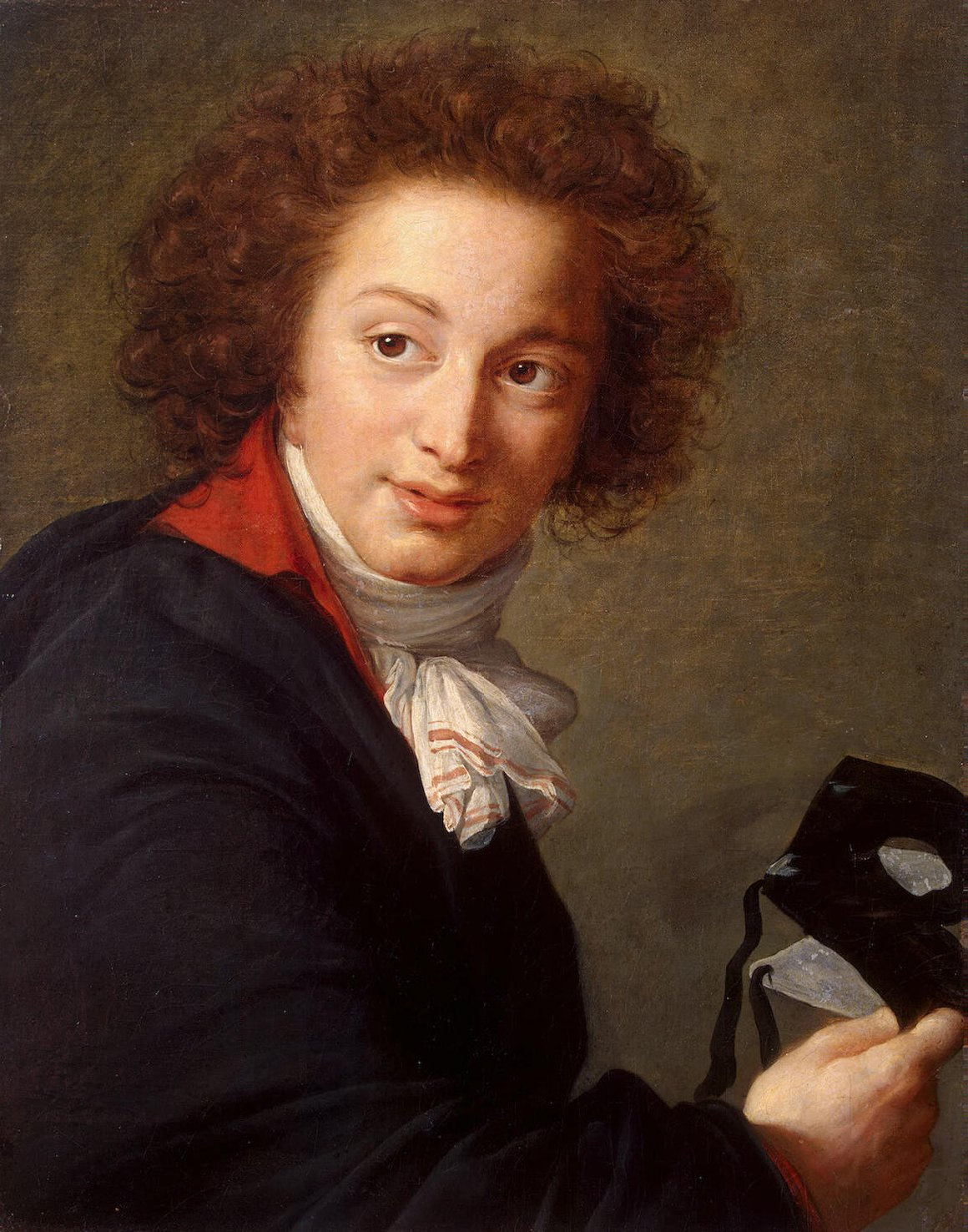 Portrait of Count Grigory Chernyshev with a Mask in His Hand